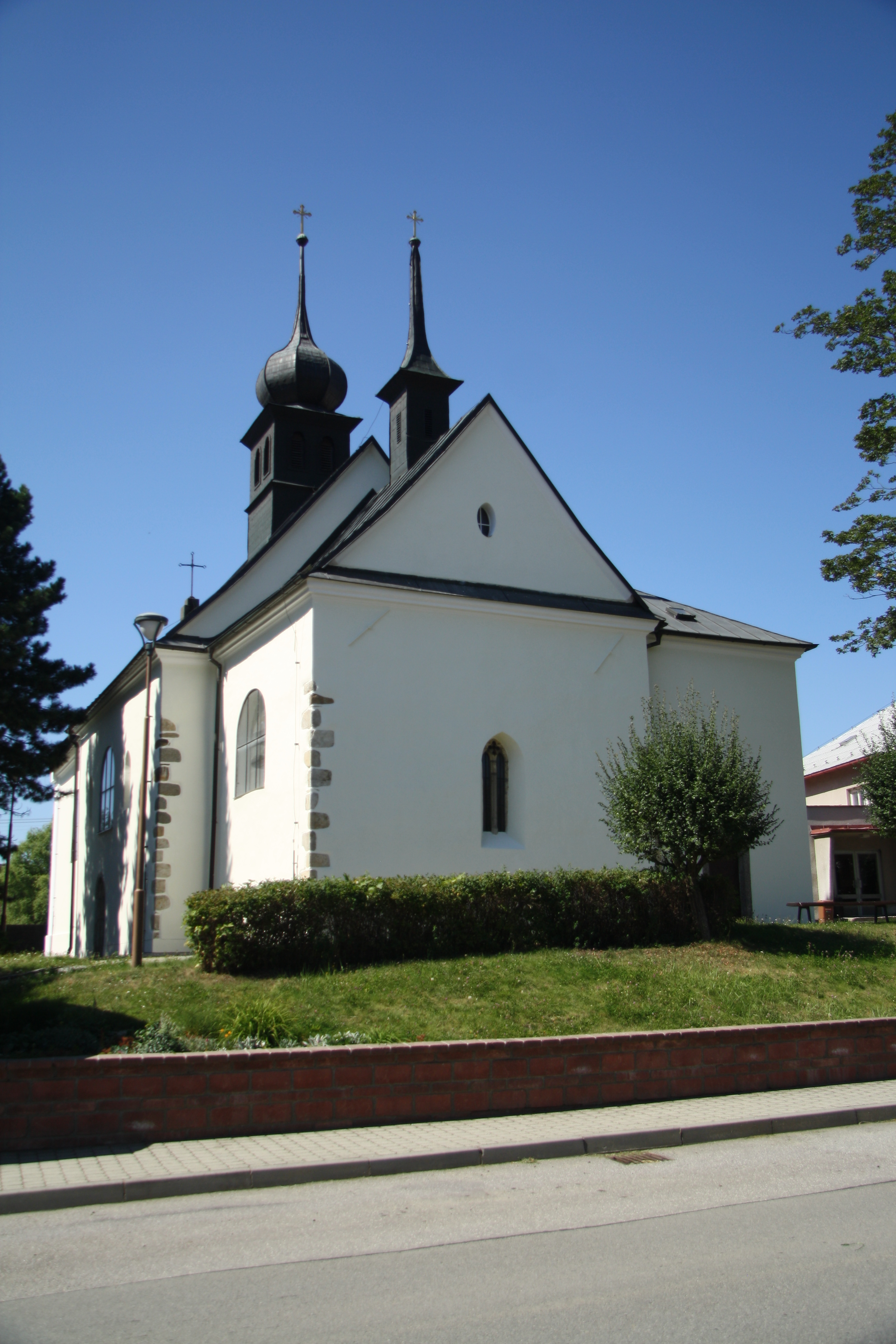 Overview of church of Saint Martin in Bory, Žďár nad Sázavou District.